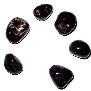 Onyx can have different arrays and bands of colors. However, some can even be pure black. [1]